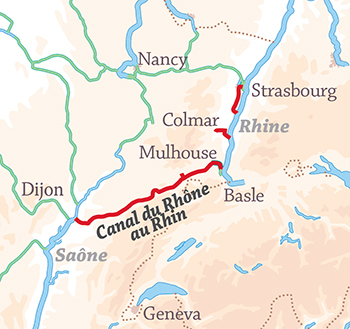 Location of the Canal du Rhône au Rhin and two distinct sections on its former northern branch, based on the European Waterways Map and Directory, 5th ed. (Transmanche)